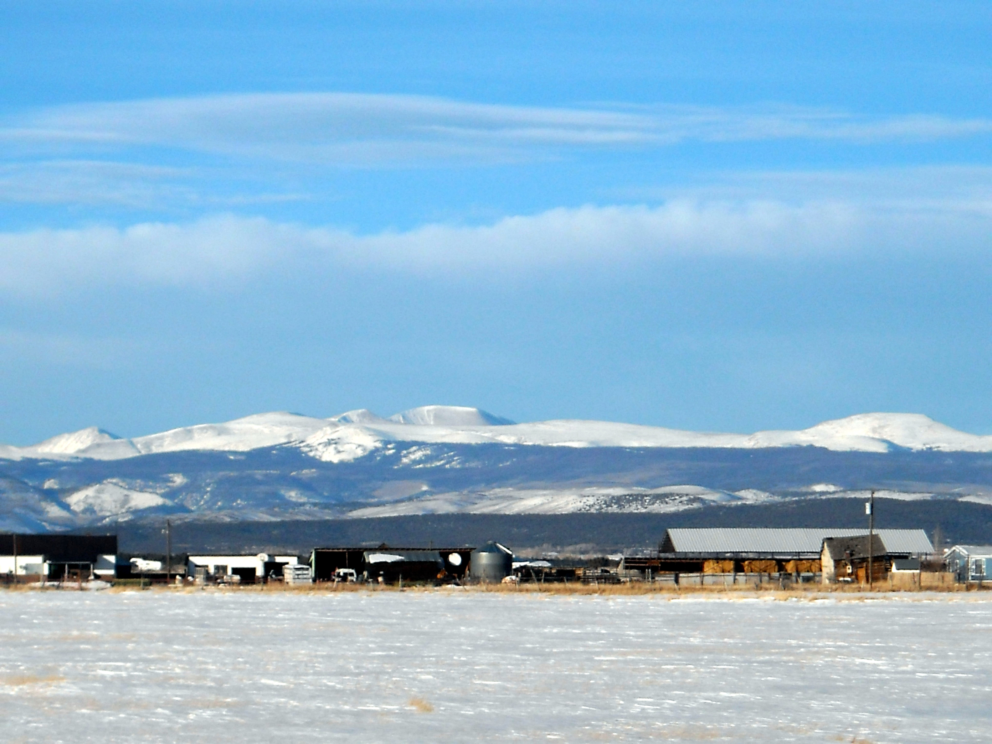 Uinta Mountains in Winter